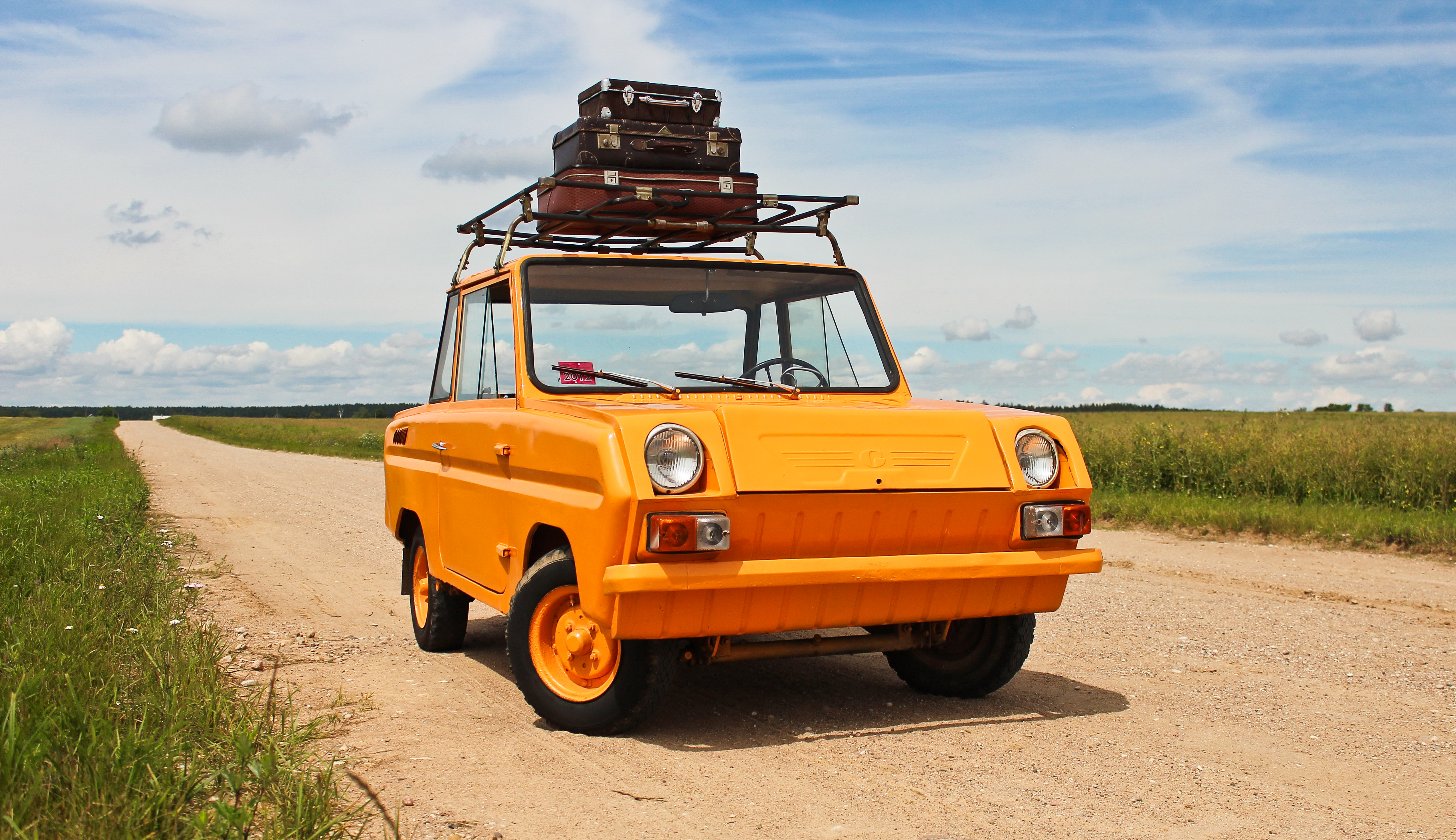 Motorcycle SMZ S3D